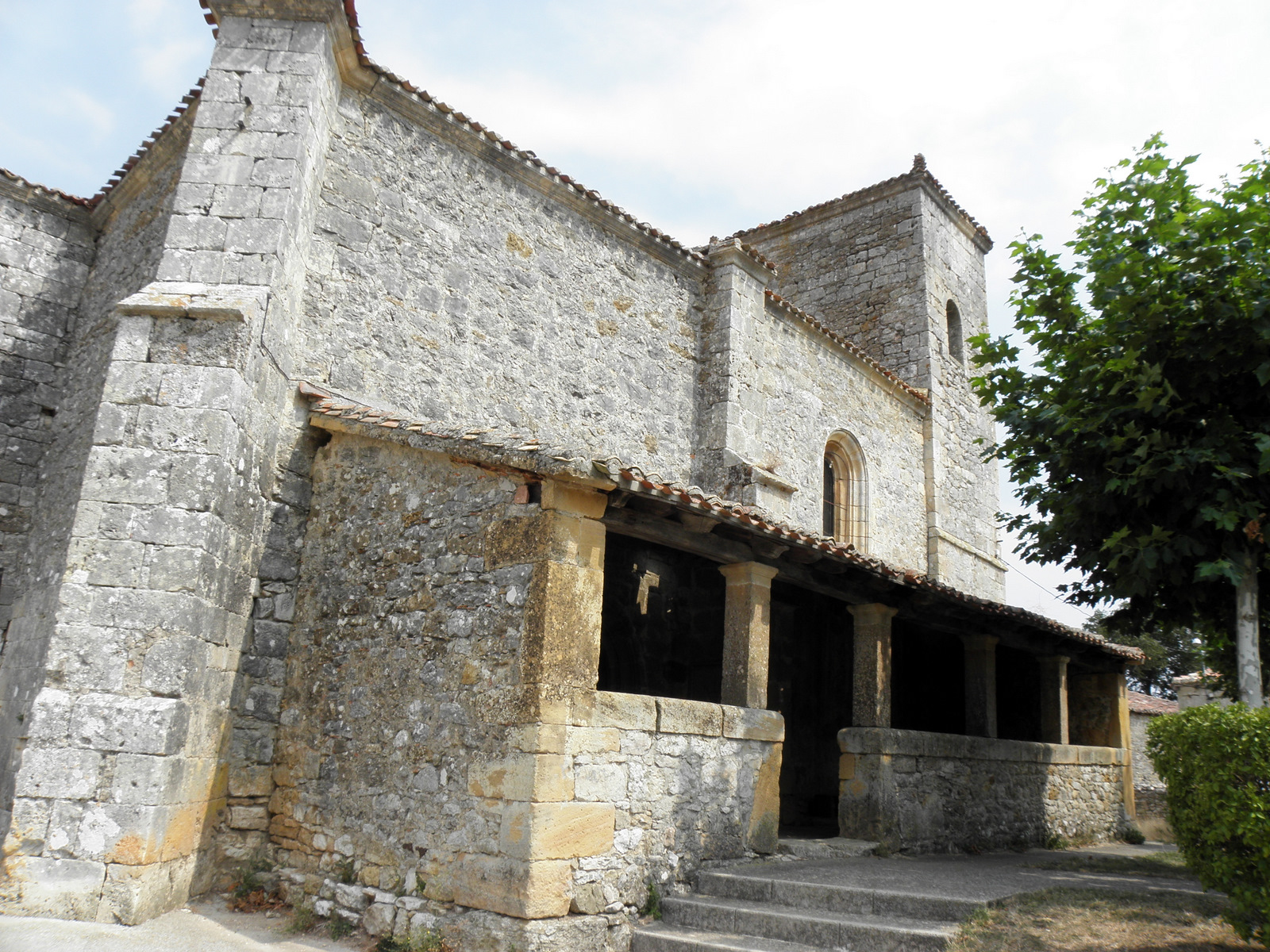 Church of Fuencivil (Burgos) (Spain)